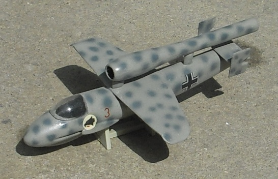 Heinkel P.1077 Romeo model picture (more pics of the Julia and Romeo can be found now on